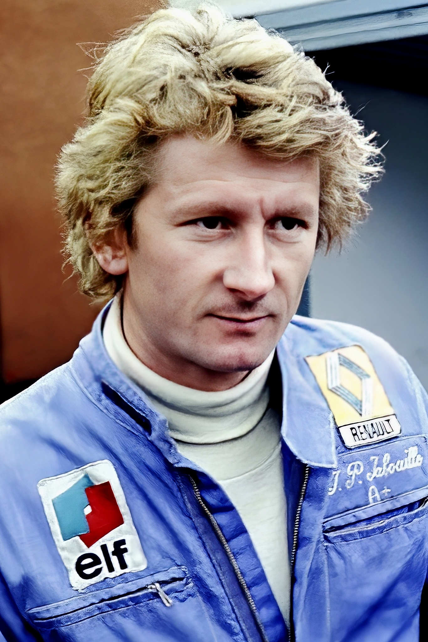 French racing driver Jean-Pierre Jabouille pictured on September 14 1975 during a Formula 2 race at Zolder in Belgium. Scan of a colour print.